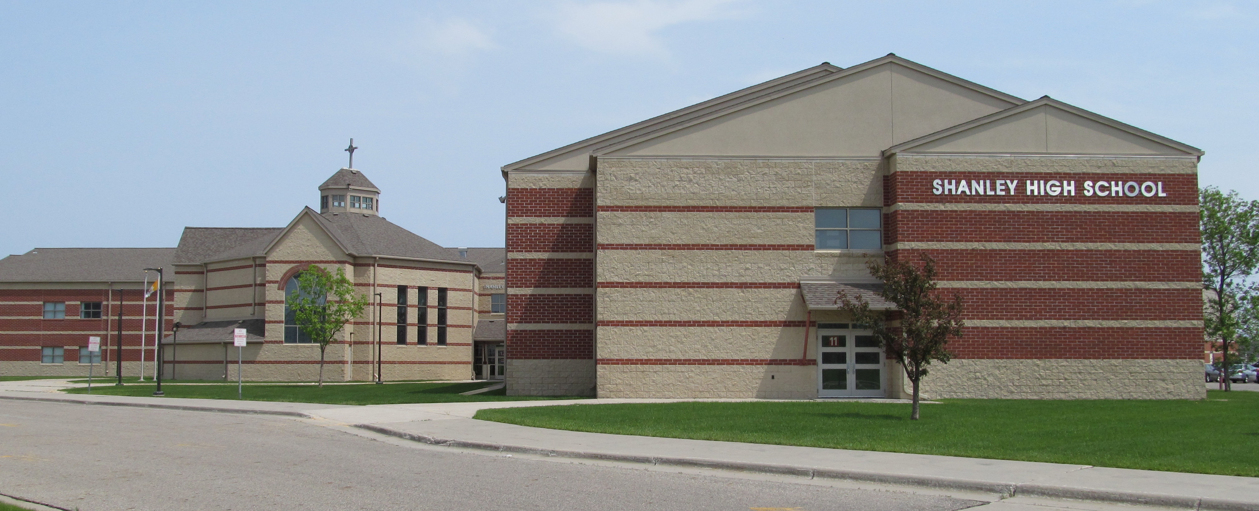 A picture of Shanley High School in Fargo, ND. View is of the south-west entrance of the building. Taken in May 2015.